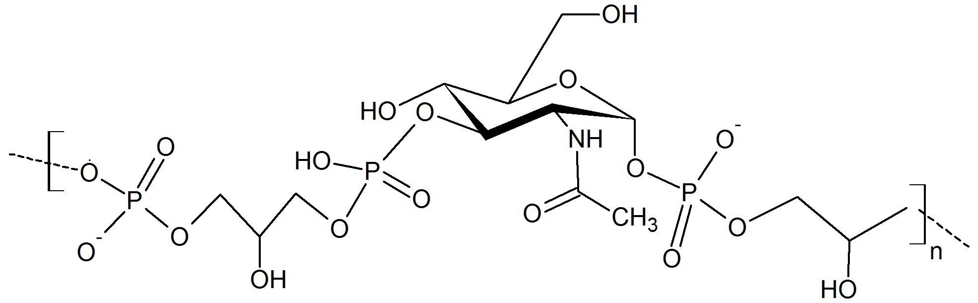 teichoic acid of Micrococcus